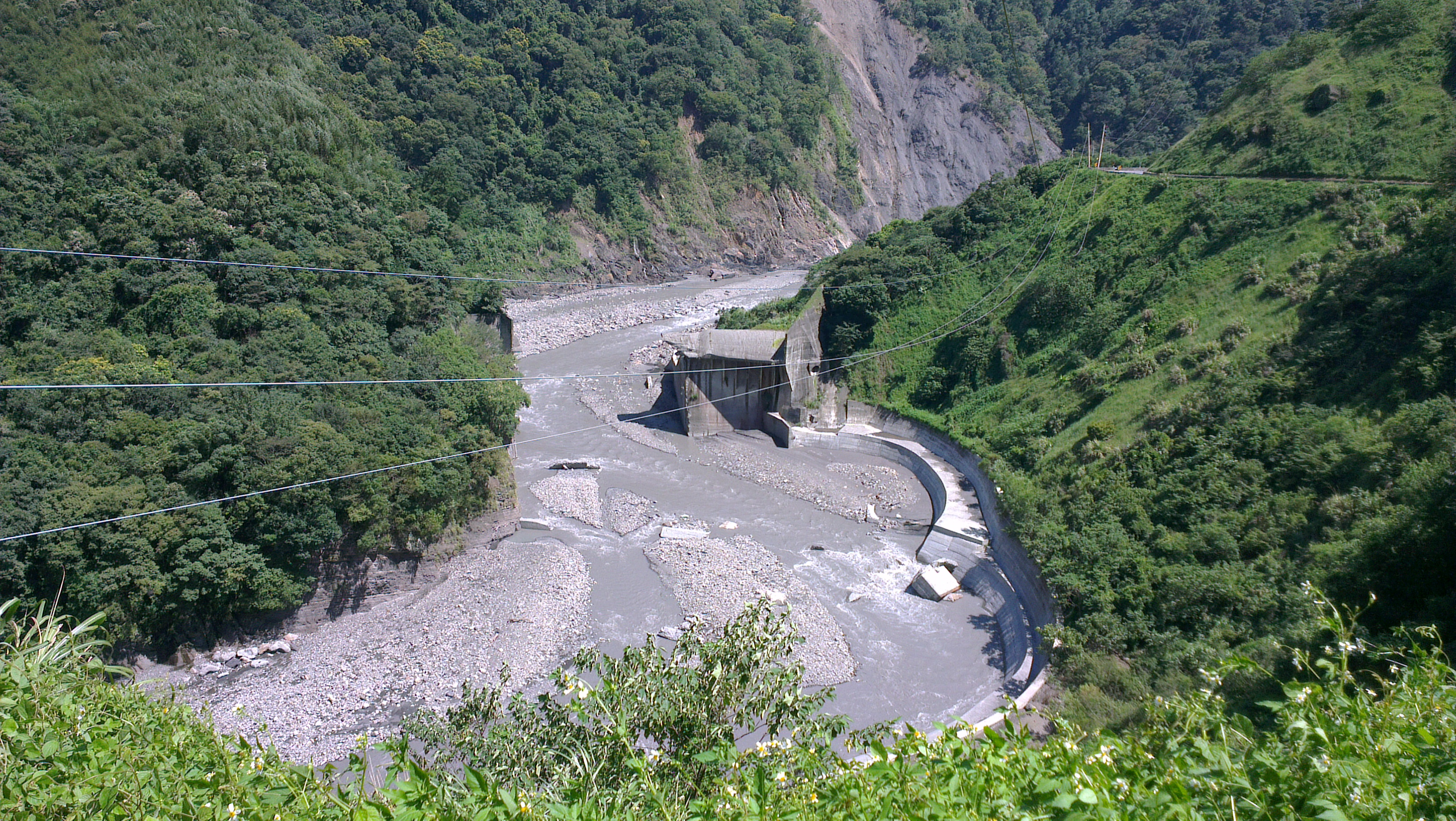 The "Baling" Dam on the "Da Han" River in Taoyuan County, Taiwan September 2007, Weipa typhoons Tahan bring abundant rainfall, resulting in Shimen Reservoir upstream (11 km Ronghua dam upstream) of Baling dam dam seat because the right was hollowed base erosion and destroyed about 60 meters.